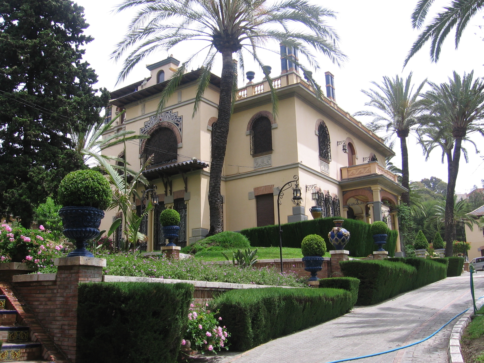 Villa Fernanda, Málaga, Spain.